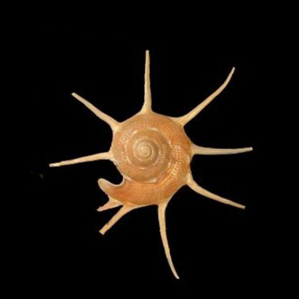 The shell of a deep water sea snail in the genus Guildfordia and the family Turbinidae. This is presumably Guildfordia yoka.